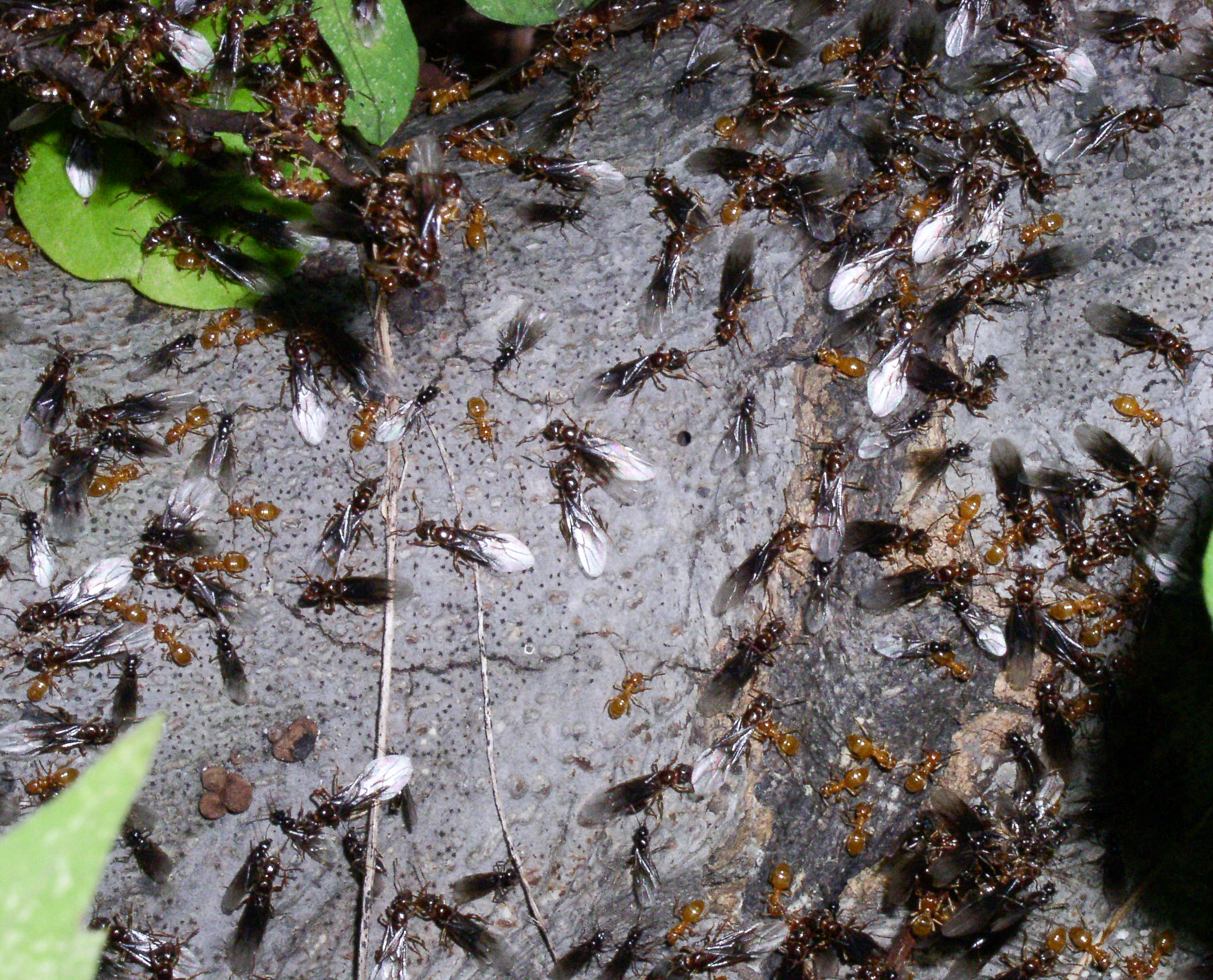 Citronella ants, Lasius, preparing for nuptial flight, males and females. Pennypack Restoration Trust, Montgomery County, Pennsylvania, USA.